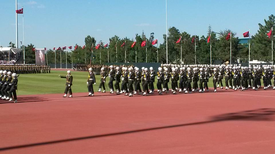 View from 167th semester graduation ceremony activities at the Turkish Military Academy, Ankara. With the participation of President Recep Tayyip Erdoğan (His Excellency). 2016 events in Military Academy Command.